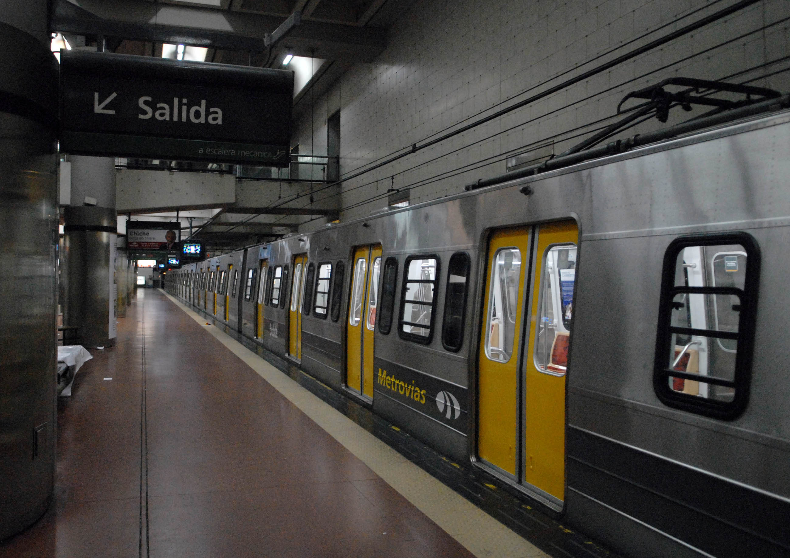 An Alstom Metropolis at Congreso de Tucumán station on Line D of the Buenos Aires Underground.